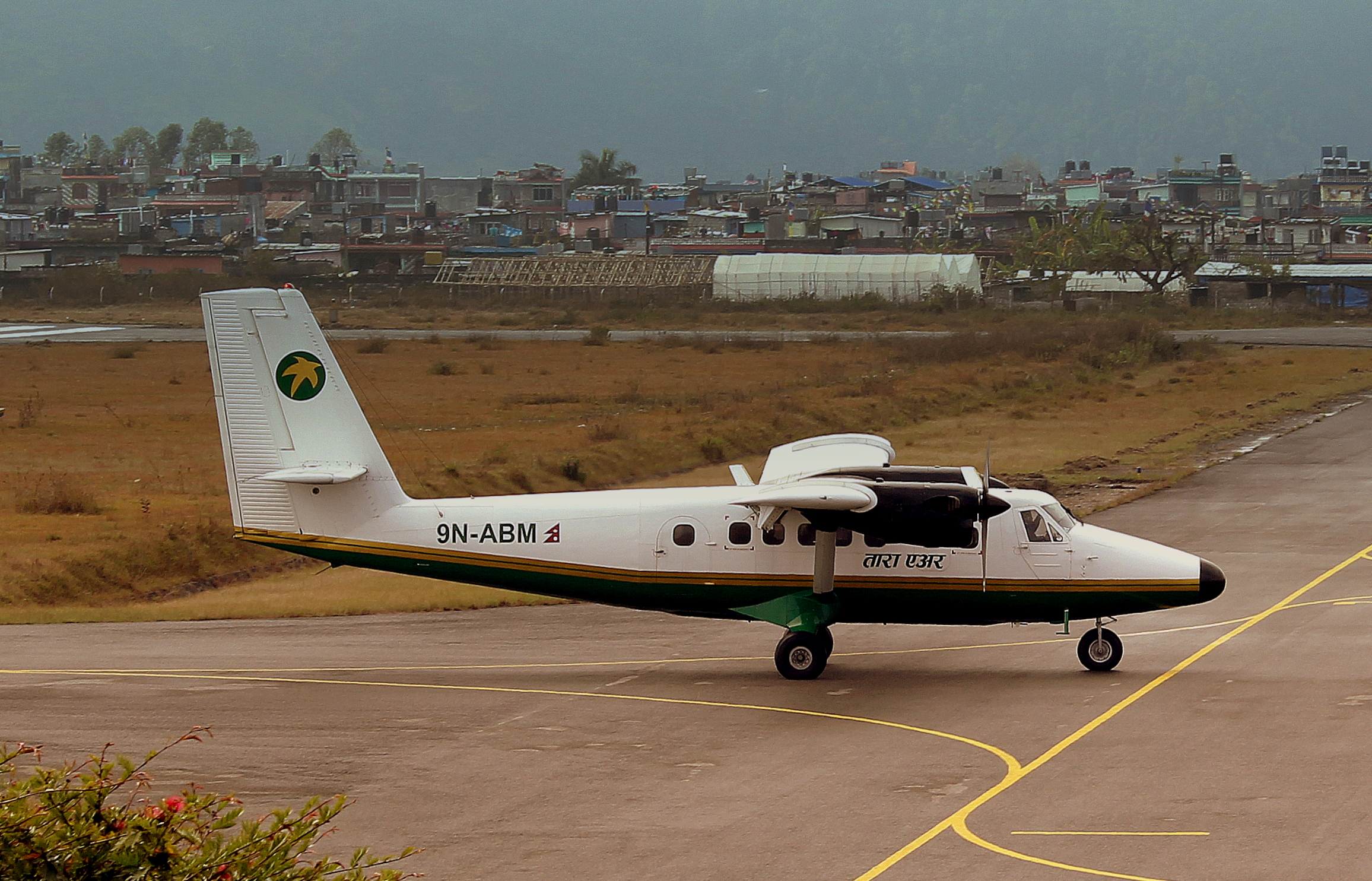 Tara Air DHC-6 Twin Otter at Pokhara Airport, Nepal in February 2013. The aircraft had recently arrived from Jomson Airport in Nepal.